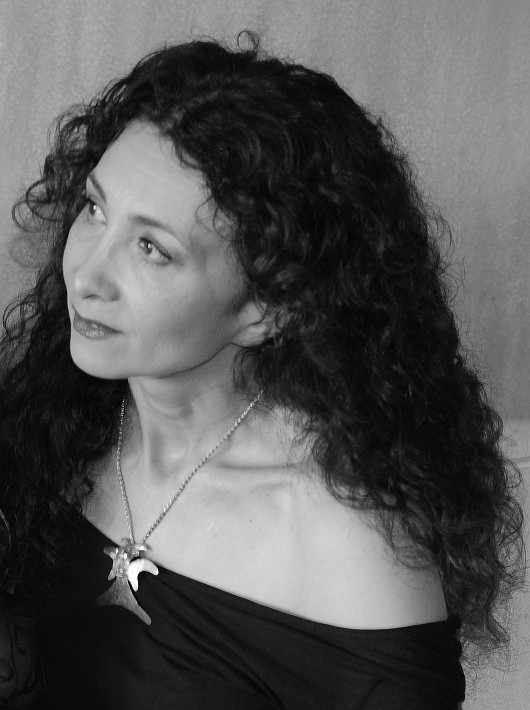 Sholeh Wolpe in 2013